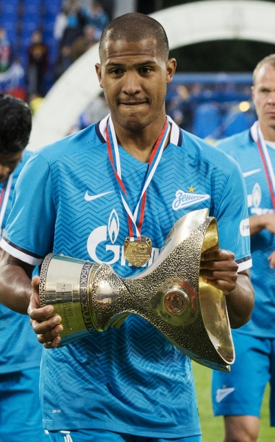 José Salomón Rondón